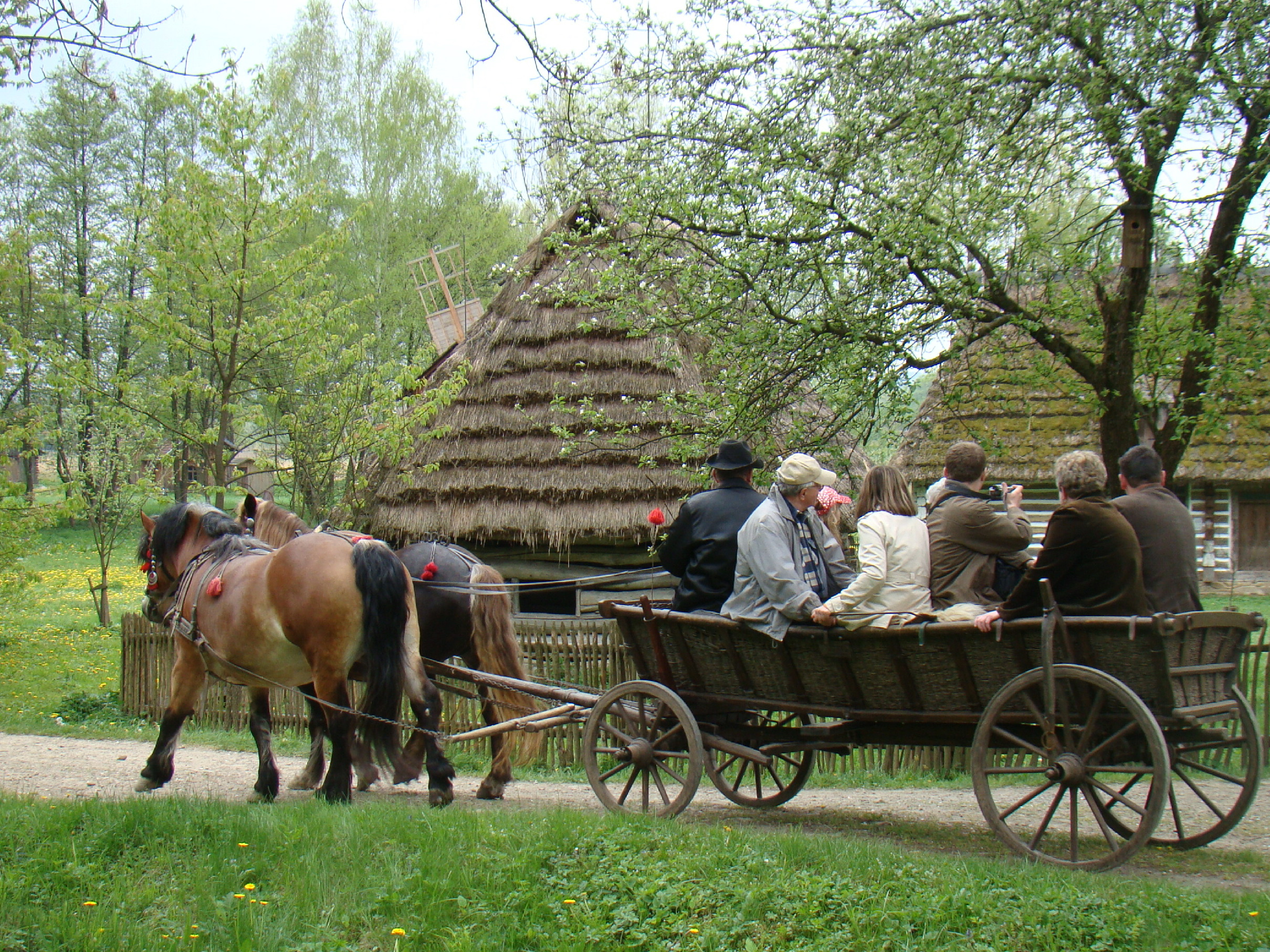 Skansen in Sanok.